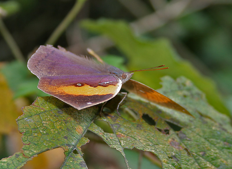 Orange Oakleaf Kallima inachus at Samsing in Darjeeling district of West Bengal, India.